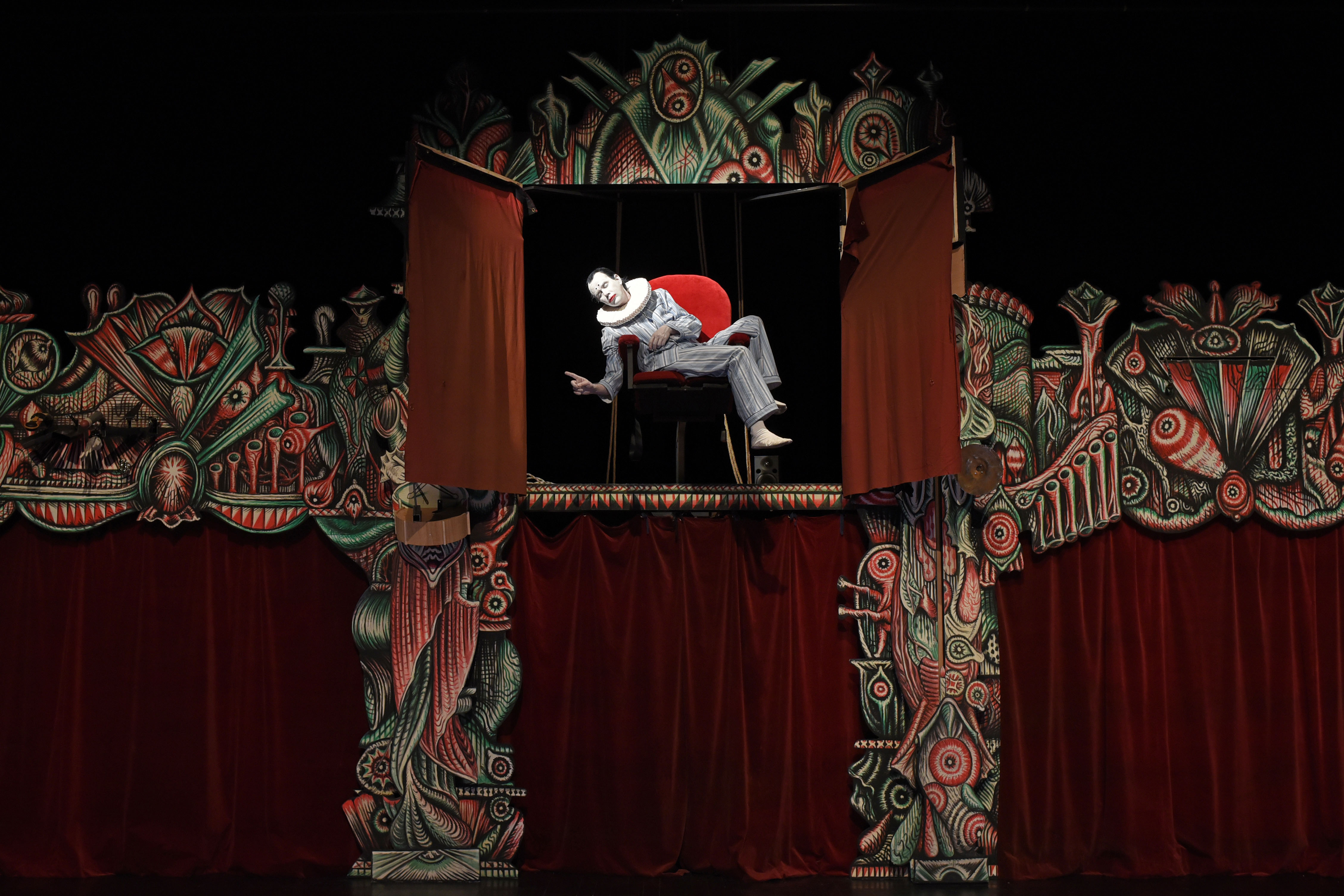 RICHARD III - LOYAULTÉ ME LIE - WILLIAM SHAKESPEAREUn spectacle de Jean Lambert-wild, Elodie Bordas, Lorenzo Malaguerra, Gérald Garutti, Jean-Luc Therminarias et Stéphane Blanquet.Répétitions au Théâtre de l'Union, CDN Limousin.Limoges 04 11 2015©Tristan Jeanne-Valès